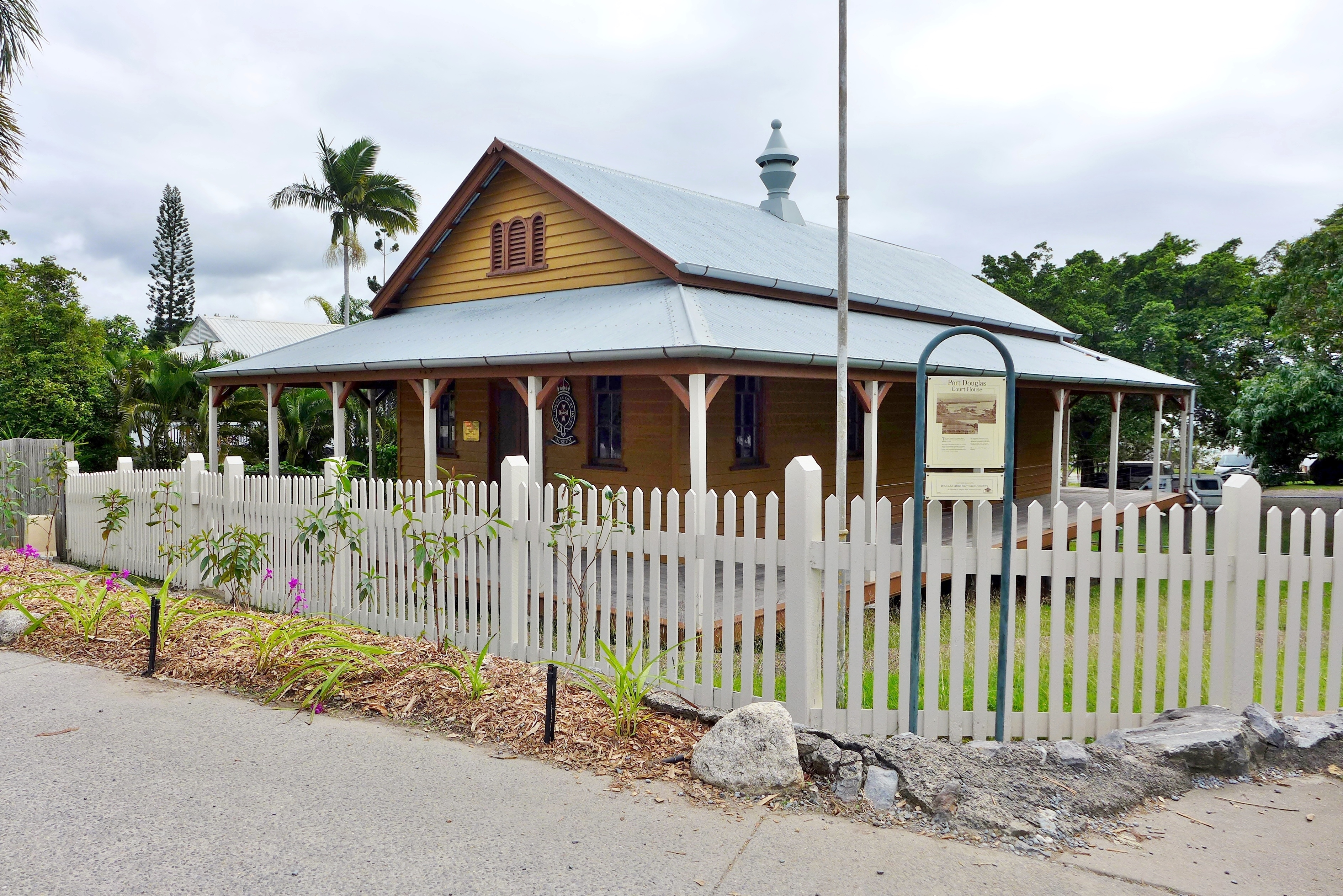 View of Port Douglas Court House Museum in Port Douglas, Far North Queensland, Australia.